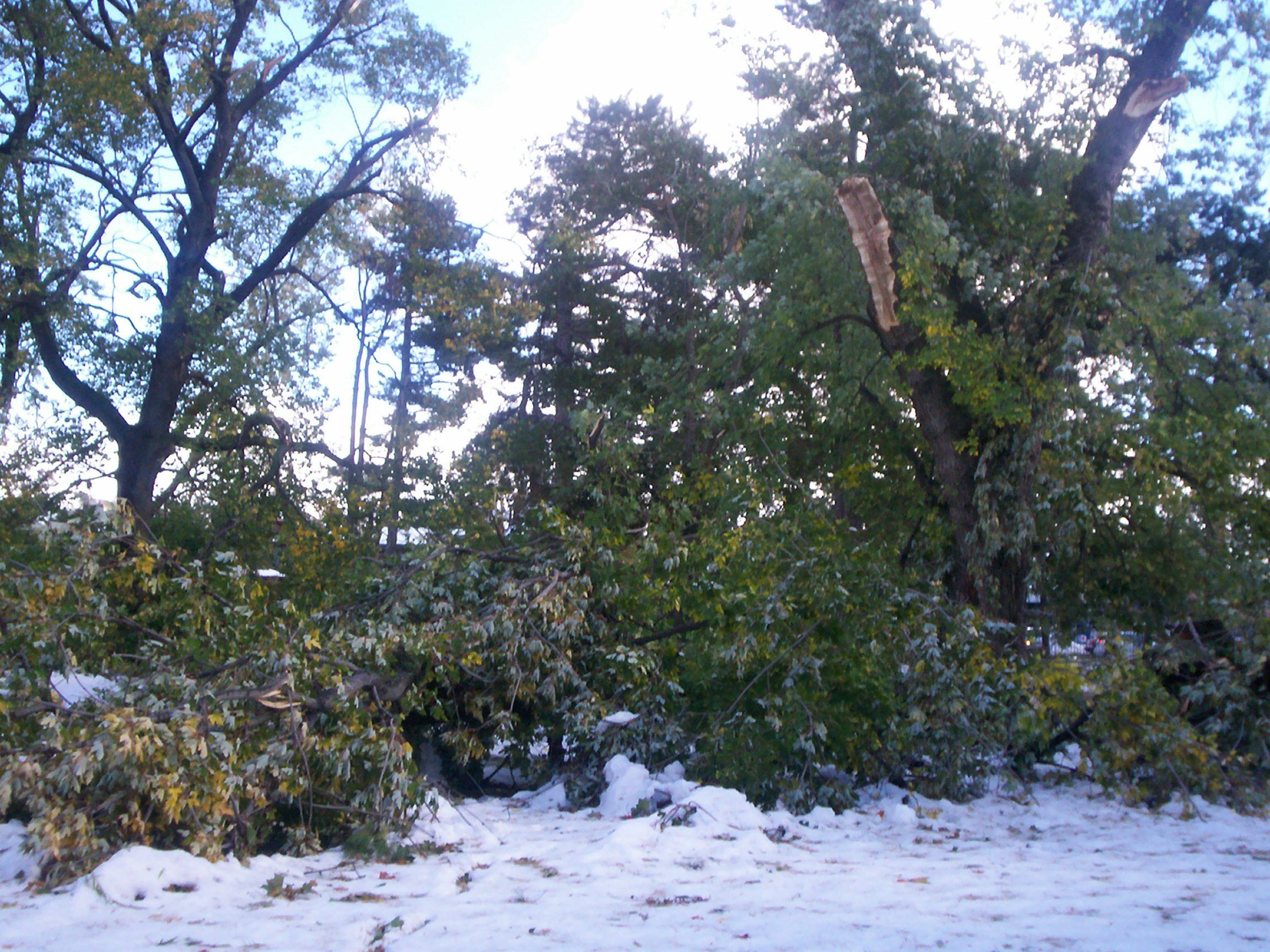 Image: This is a tree that fell in the "Elmwood Forest" on Forest and Elmwood Avenues in Buffalo, New York during the "Friday the 13 snow storm." Nearly the whole forest was destroyed. [October 14, 2006]. Source: I am the author of this image.